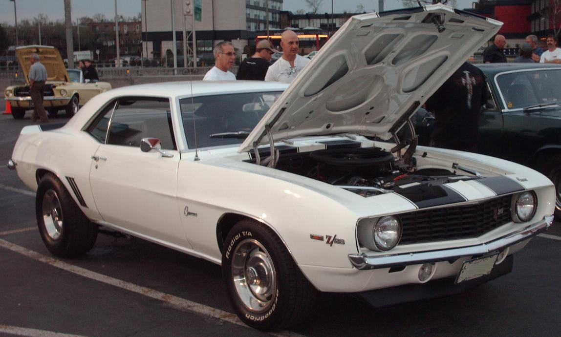 1967-1969 Chevrolet Camaro Z28 photographed in Montreal, Quebec, Canada at Gibeau Orange Julep.